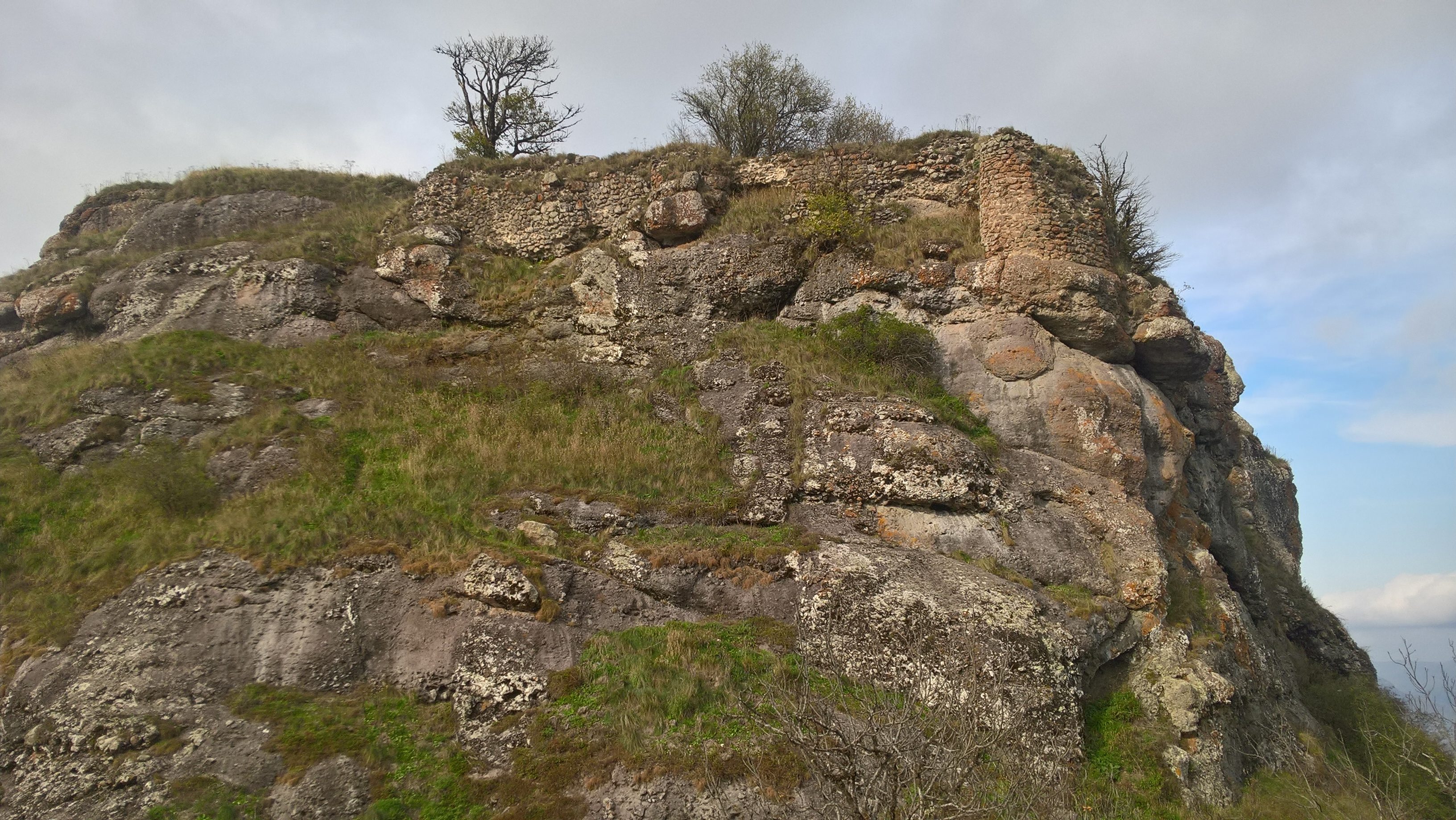 Image of the ruins of the Khachaghakaberd fortress.